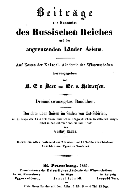 This is a cover of the a 1861 issue of the journal Beiträge zur Kenntniss des Russischen Reiches und der angrenzenden Länder Asiens (Contributions to Knowledge of the Russian Empire and Neighboring Countries of Asia)